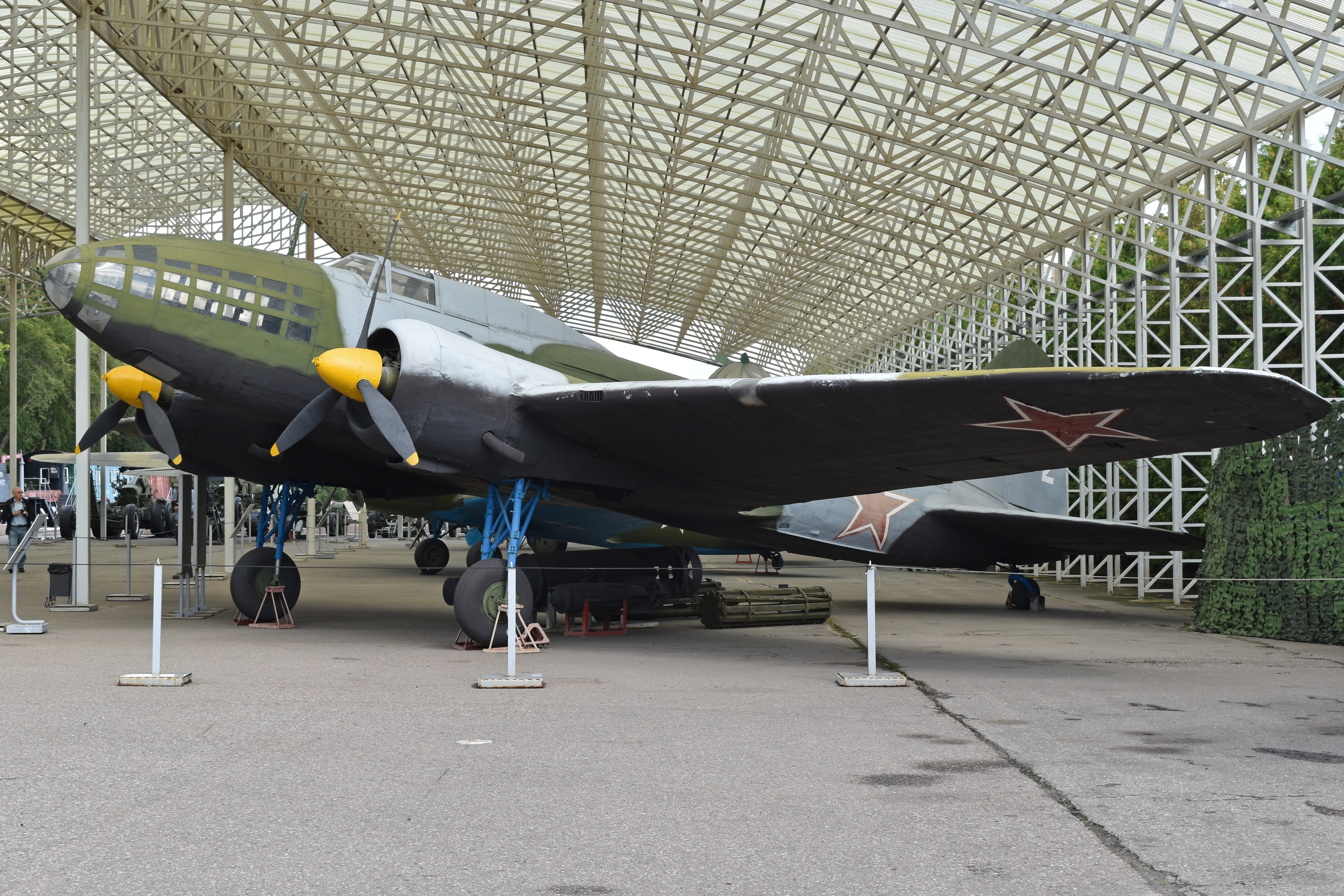 This is the sole surviving Il-4 and was shot down by Japanese fighters in 1945. Recovered from the crash site in the late 1990s, it was rebuilt by the Aircraft Restoration Company in Moscow and went on display in 2004. While it is a combination of original components and new build mock-up, it is certainly one of the more convincing exhibits here. On display in ‘Victory Park’, Museum of the Great Patriotic War, Poklonnaya Hill, Moscow, Russia. 26th August 2017